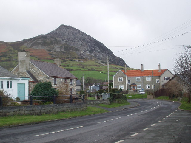 Trefor village with north summit of Yr Eifl behind.